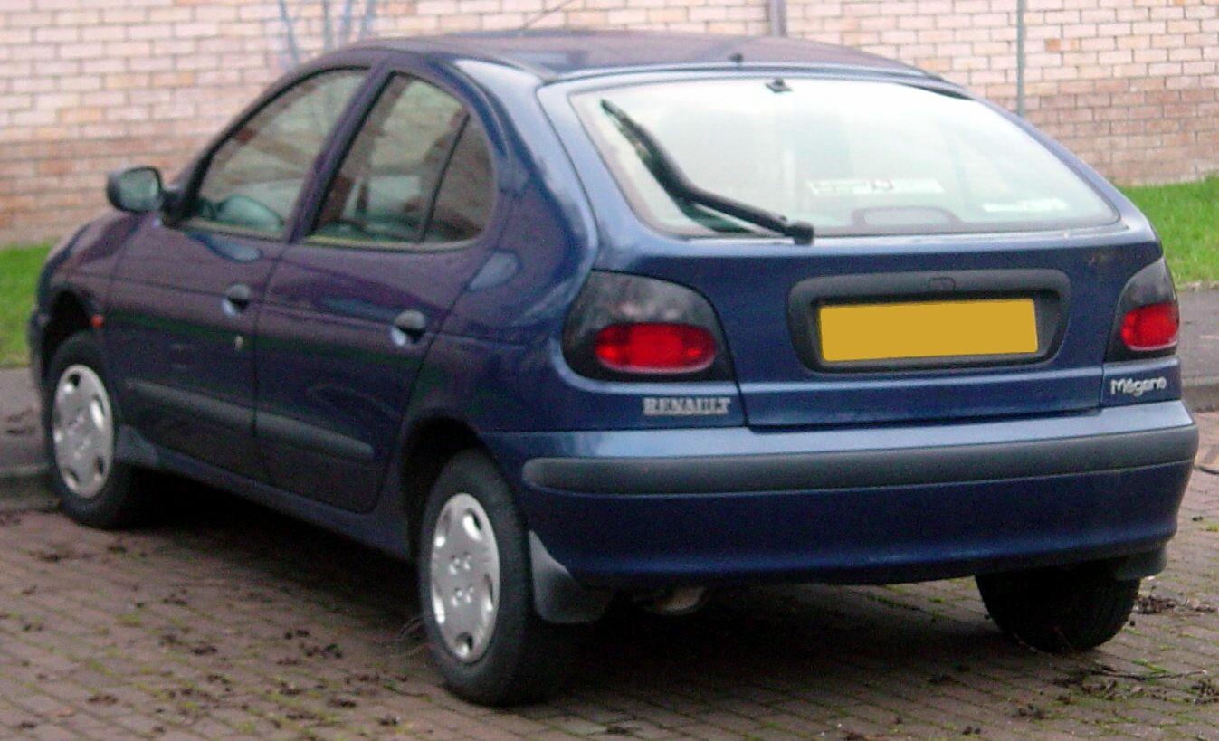 created by Mazurka